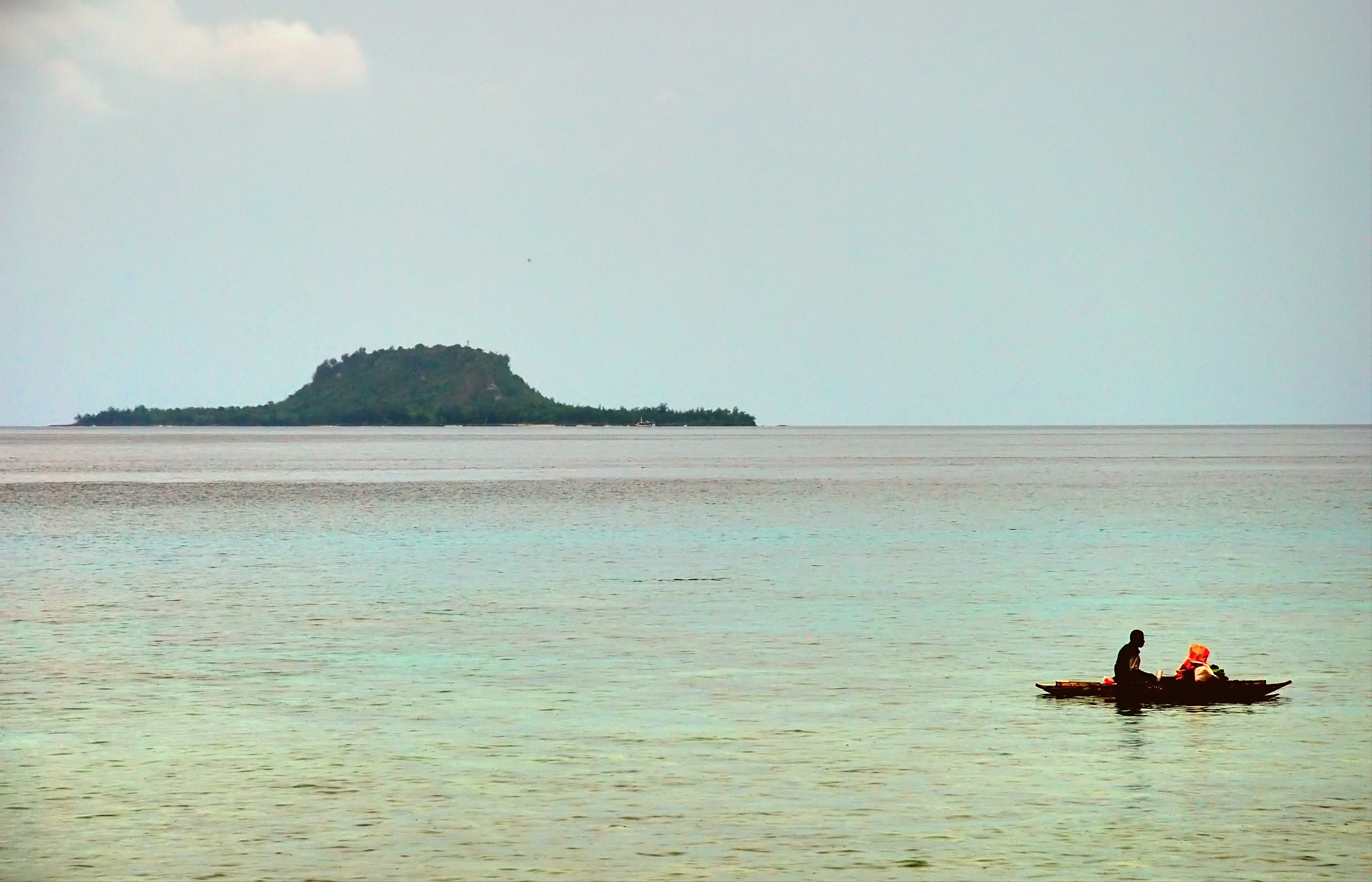 Eretoka (Hat Island). Where Roy Mata'a mass burial took place